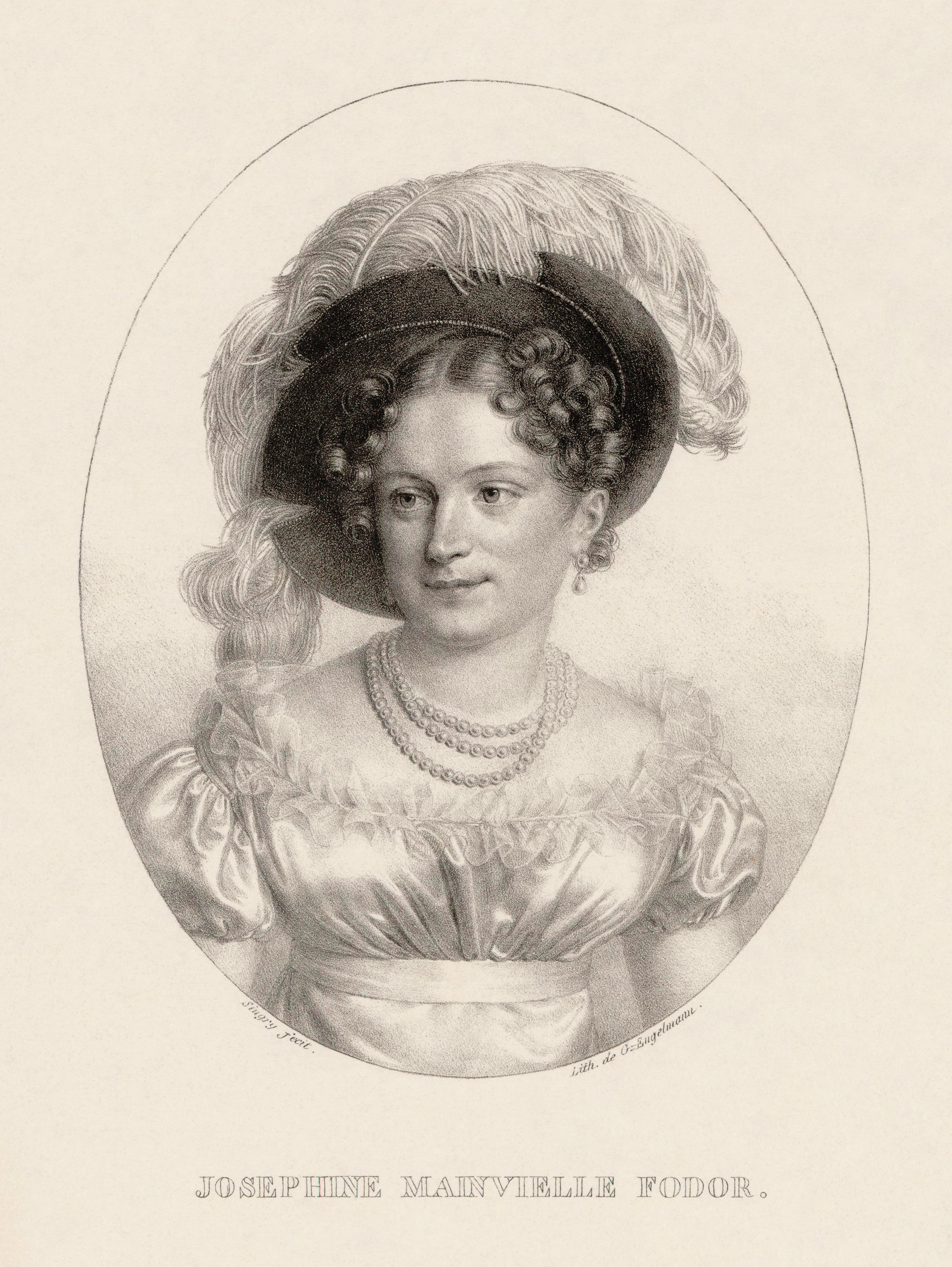 Lithograph of opera singer Joséphine Mainvielle-Fodor. 16 x 12,5 cm